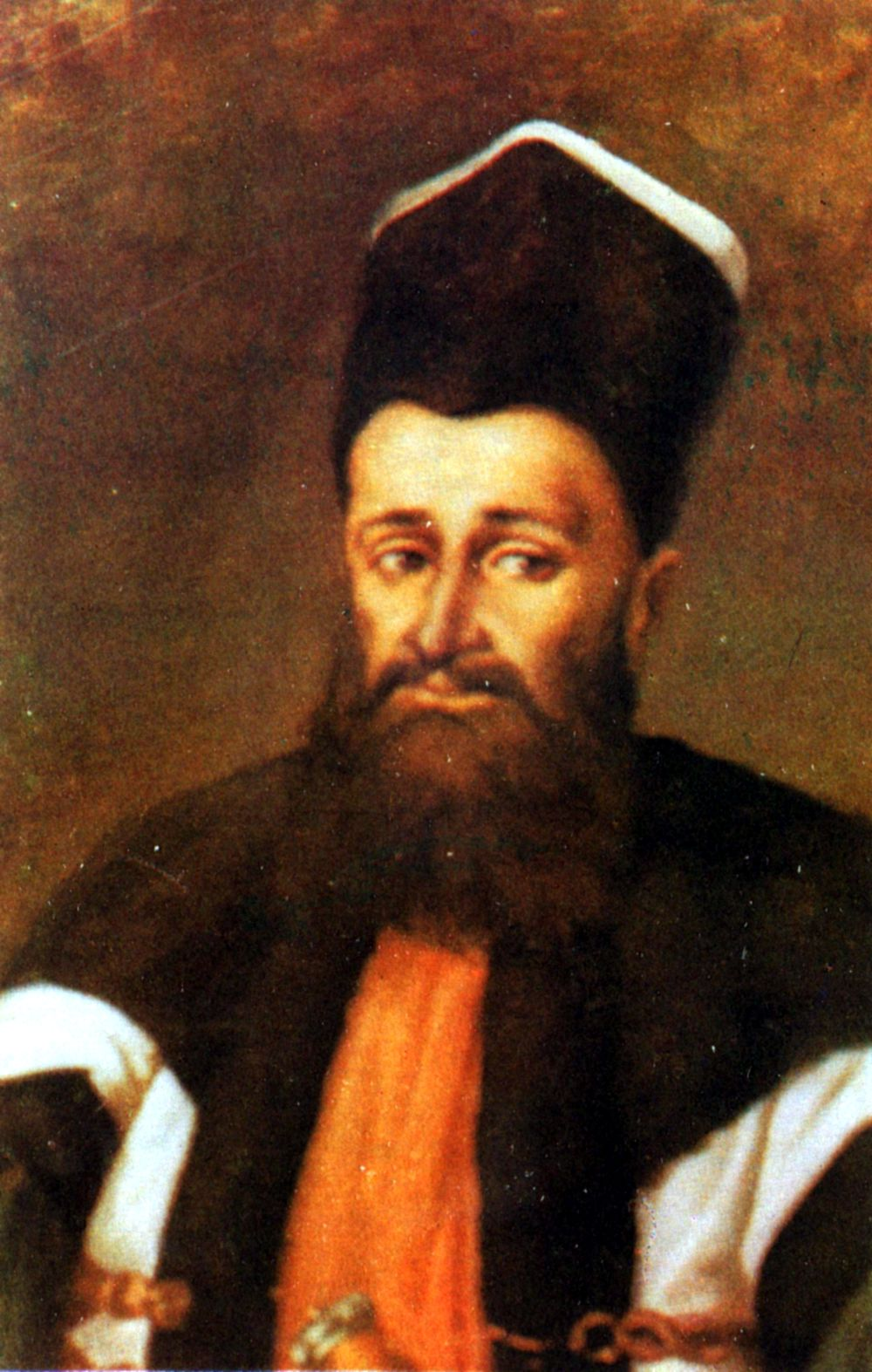 Painture at Historical and Ethnological Society Museum from Athens